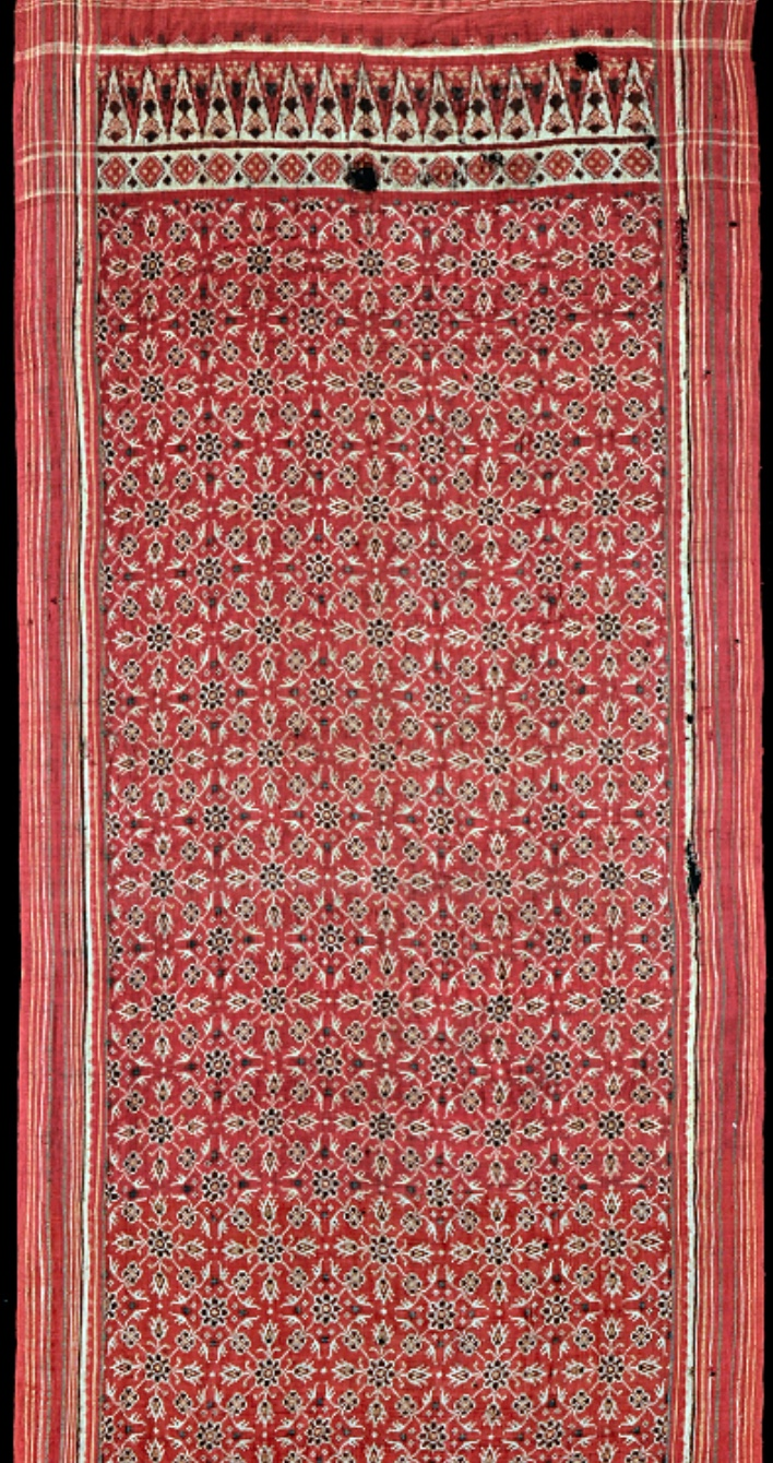 Locale: Patan region. Period: 1725-1800. Yarn: Silk, hand-spun. Technique: Double ikat. Size: 103 x 445 cm (3' 4" x 14' 7") LW: 4.32 Design: Field decorated with circular floral pattern called jilamprang, which in Gujarat is known as chhabdi bhat or basket pattern. It represents an eight-petalled lotus, with buds and flowers radiating from it, encircled by the curvilinear outlines of leaves. Border are triangles alternated with inverted triangles called tumpal, a motif called tumpal. It was this patola type more than any other, that served as an inspiration to weavers all across the Indonesian archipelago. Comment: Several small holes, a few tears in the longitudinal border, one with old (clumsy) repair. The jilamprang covered field however is almost entirely intact and has lost none of its visual impact. Weaving is fairly loose and gauzy, giving the impression of raw silk.